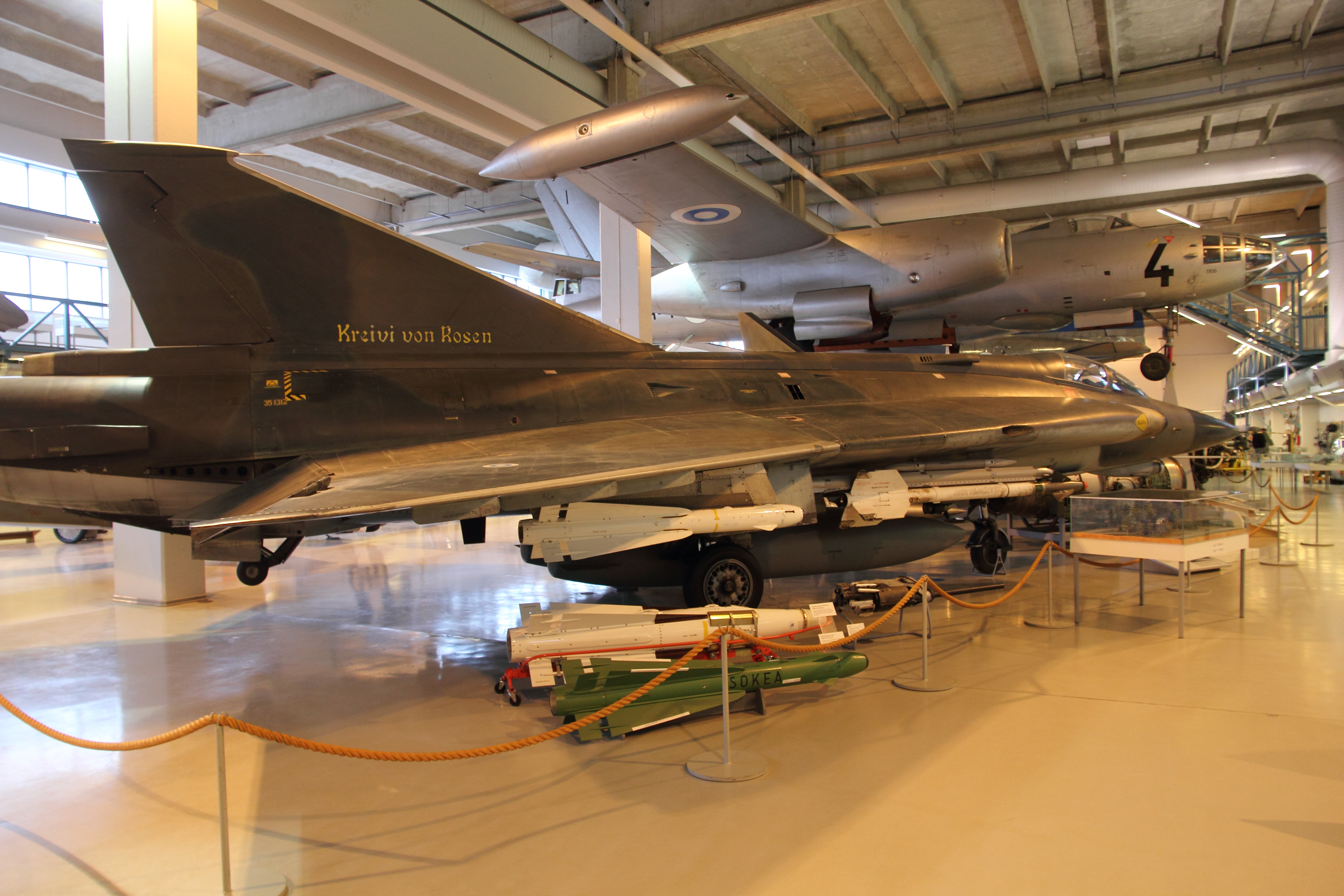 Saab J-35FS Draken fighter (DK-223) "Kreivi von Rosen" (Count von Rosen) in Aviation Museum of Central Finland.